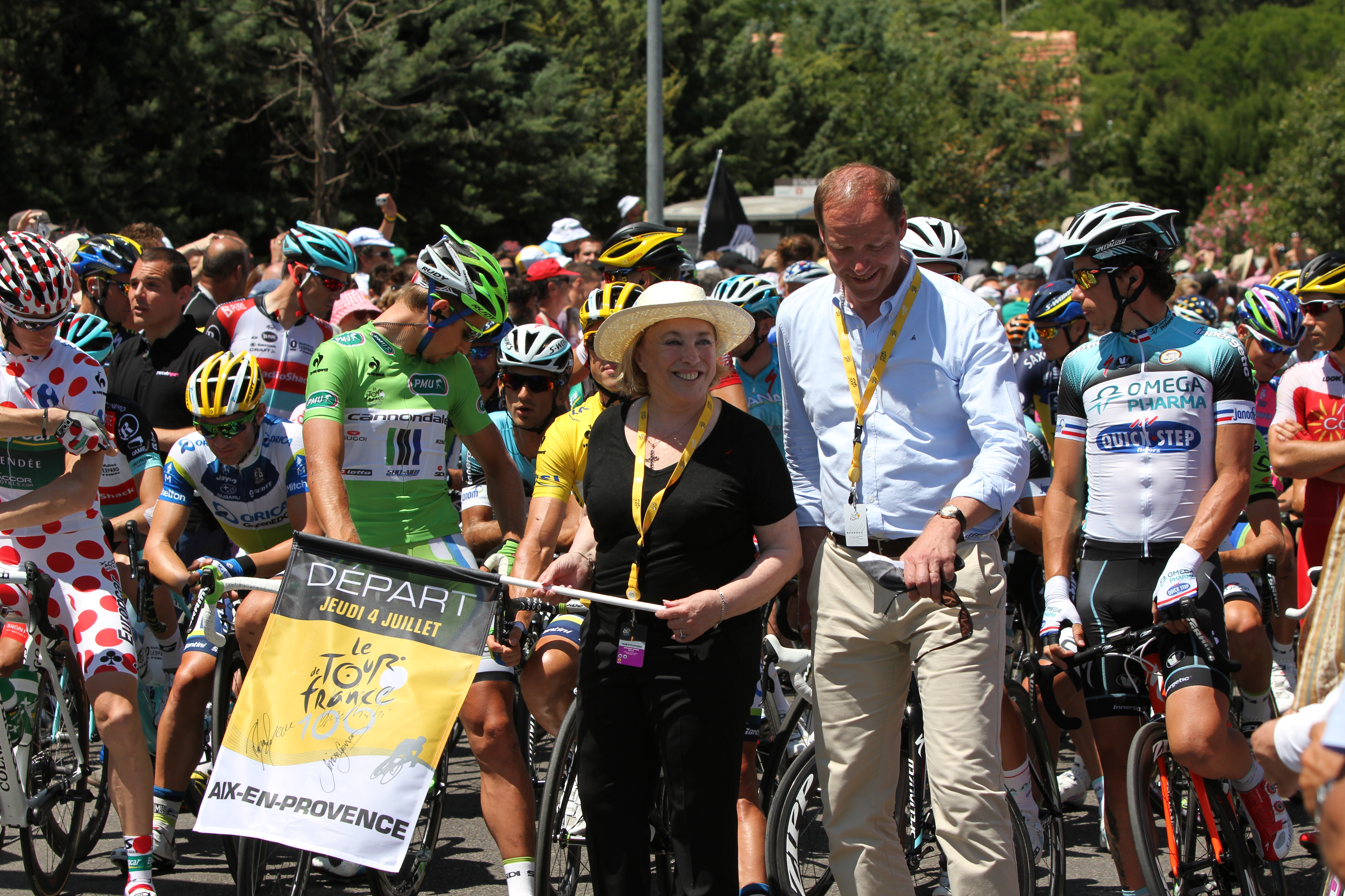 Maryse Joissains-Masini and Christian Prudhomme during Stage 6 of the Tour de France 2013 in Aix-en-Provence (Bouches-du-Rhône, France)